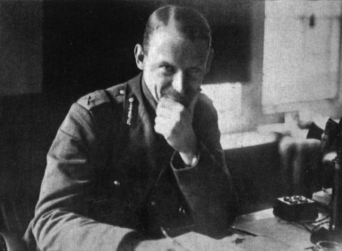 Brigadier-General Sir Robert Brooke-Popham, the RAF Director of Aircraft Research